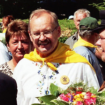 Brunon Synak - Professor of sociology and a Kashubian activist in Łeba 2005.